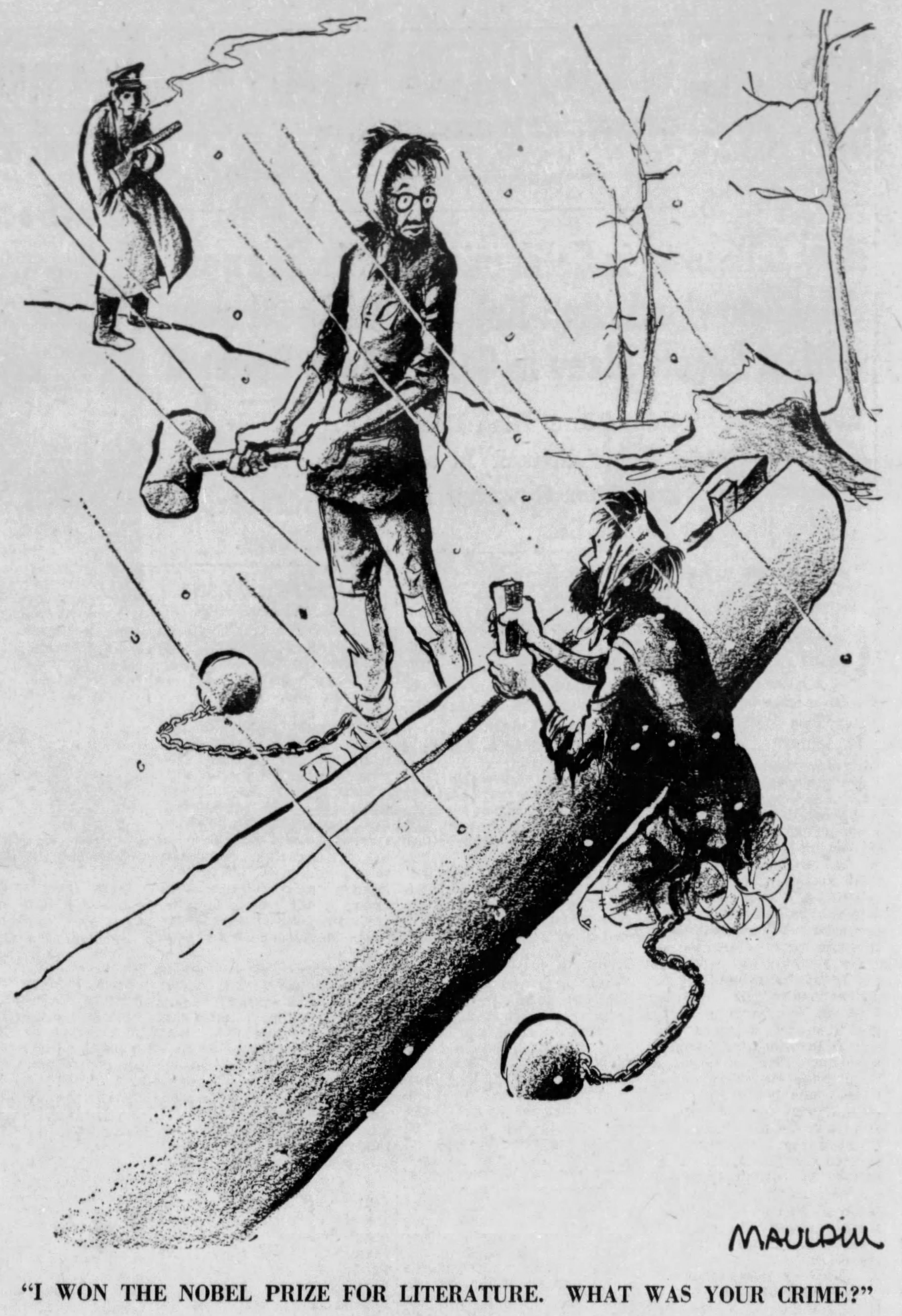 An editorial cartoon captioned "I won the Nobel Prize for Literature. What was your crime?" It comments on the Soviet government's treatment of Nobel-winning author Boris Pasternak, who was coerced into declining the prize. This cartoon won the 1959 Pulitzer Prize for Editorial Cartooning.